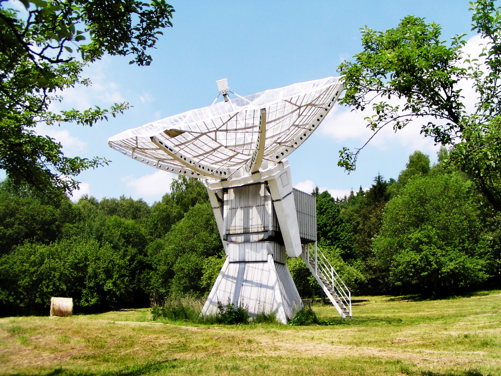 10-m Solar radiotelescope at the Czech Astronomical Institute in Ondřejov